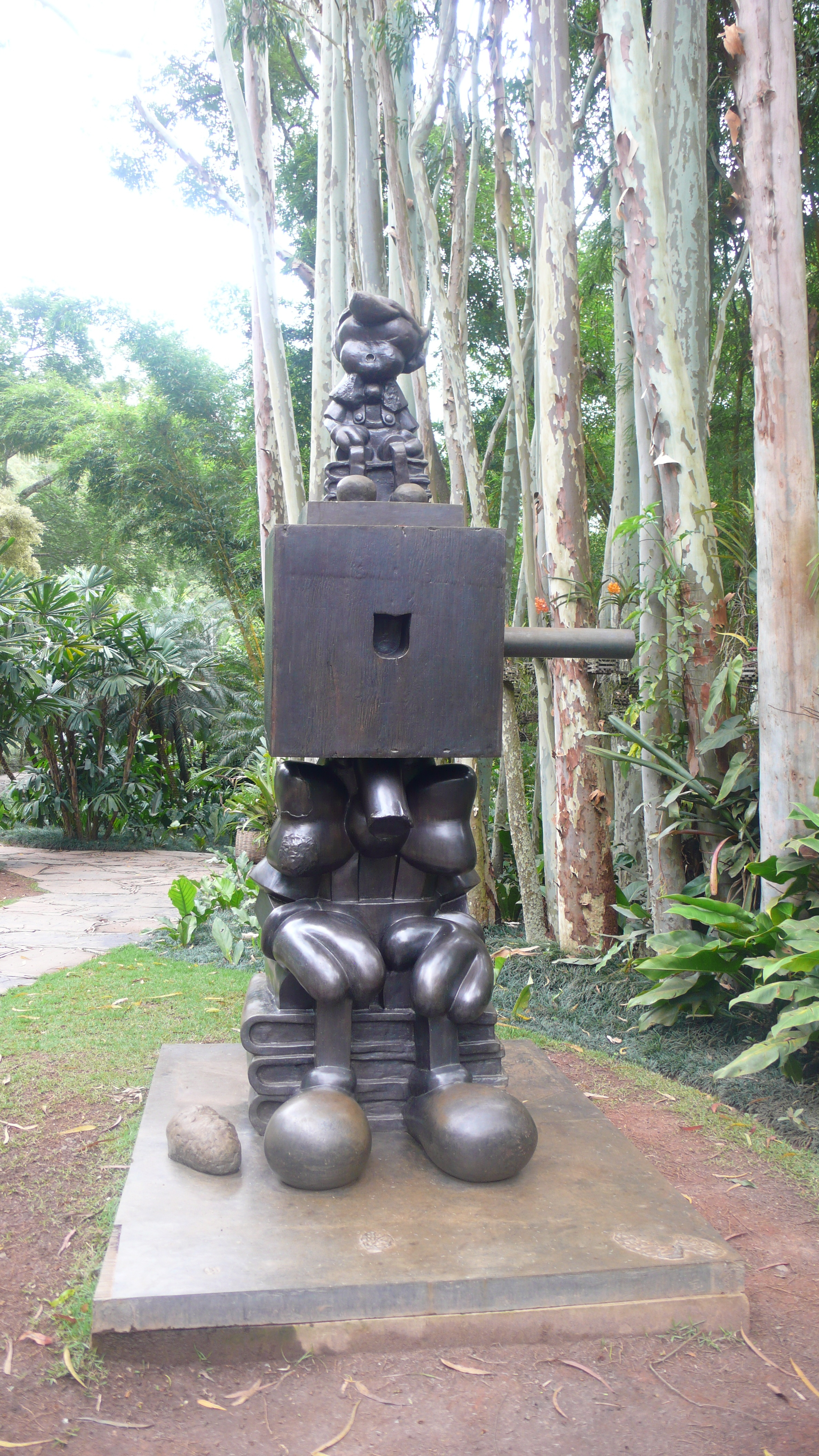 Sculpture "Boxhead" (2001) by Paul McCarthy, Collection of the Centro de Arte Contemporanea Inhotim in Brumadinho/Brazil